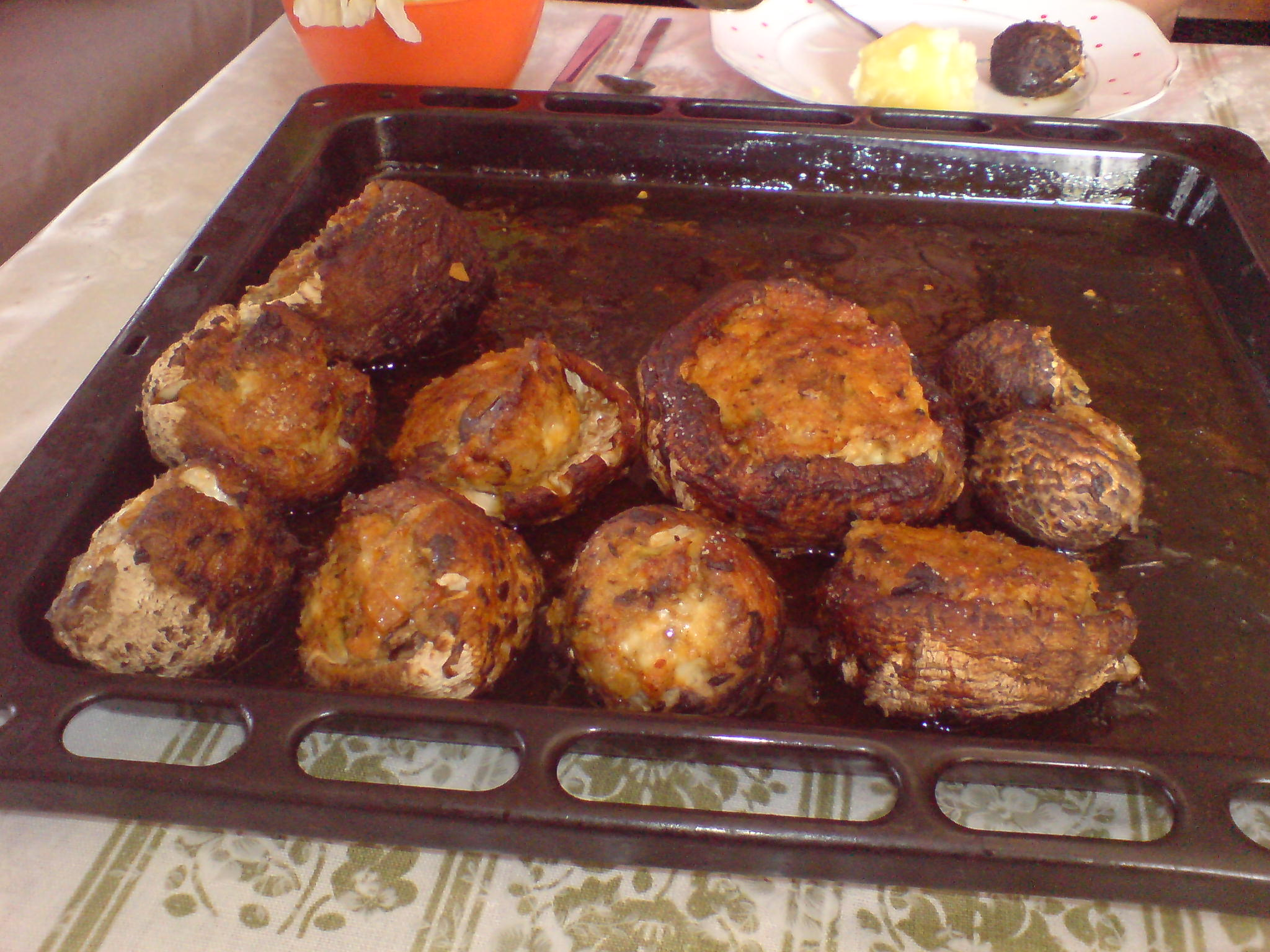 Parasol mushroom (Macrolepiota procera) - with meat Stuffing